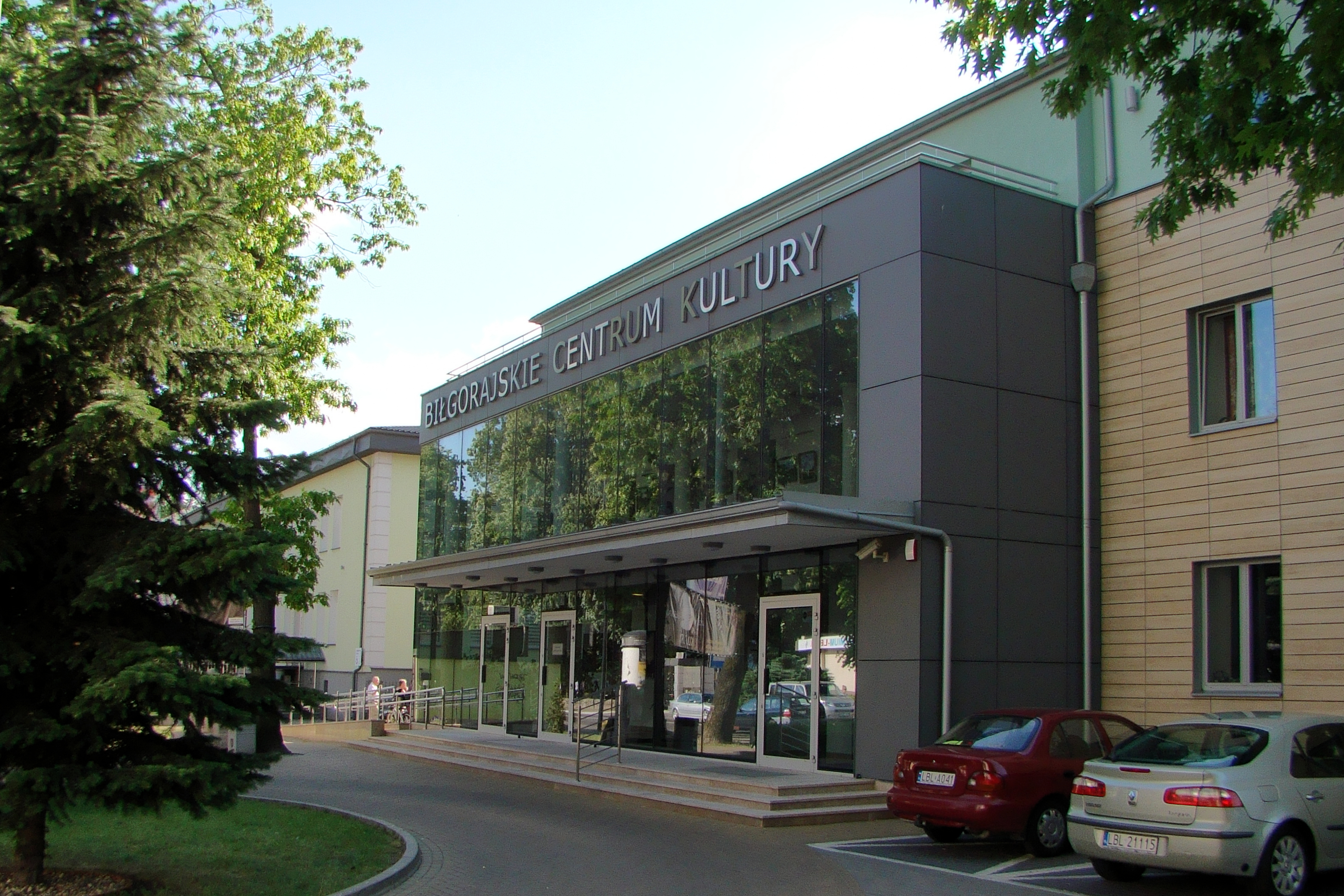 Biłgoraj - Cultural Centre